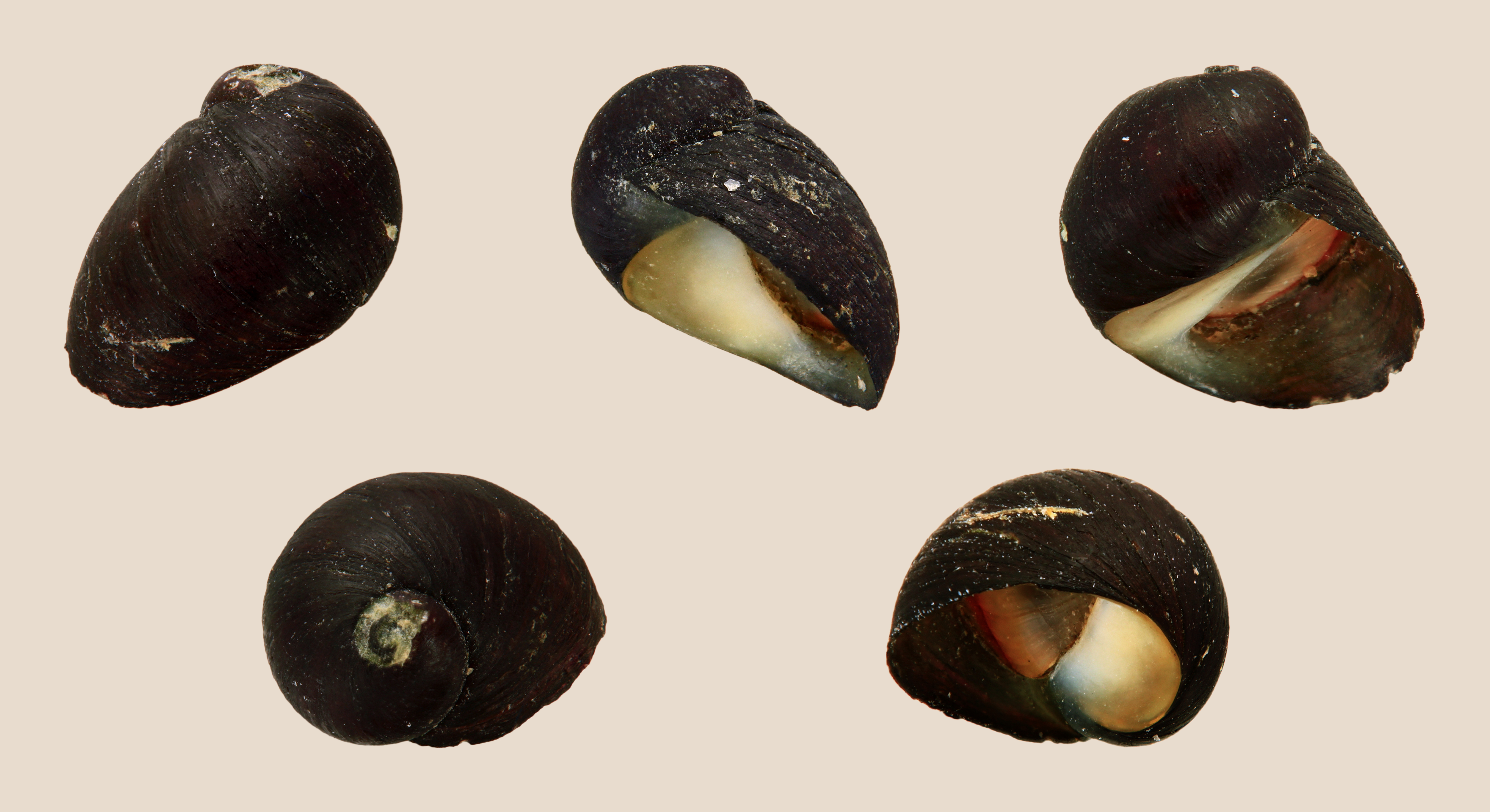 Length 0.7 cm; Originating from the drain of the ancient well house, Pili, Kos, Greece 36°50′32.13″N 27°9′20.85″E / 36.8422583°N 27.1557917°E; Shell of own collection, therefore not geocoded.